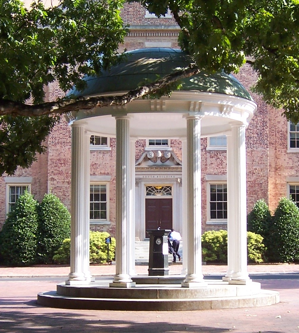 The Old Well in front of the South Building at the University of North Carolina at Chapel Hill.